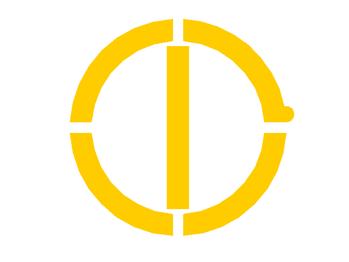 Mark of German 11 Panzer Division - Variant